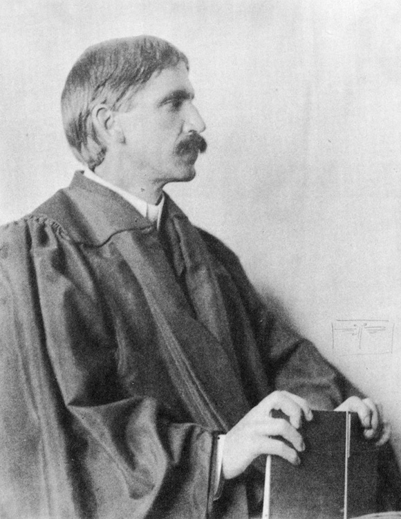 John Dewey, by Eva Watson Schütze. In Hyde Park, John Dewey was part of a closely knit group of friends and colleagues that included George Herbert Mead, James H. Tufts, and Eva Watson Schütze, the PhotoSeccessionist who produced this imposing portrait.